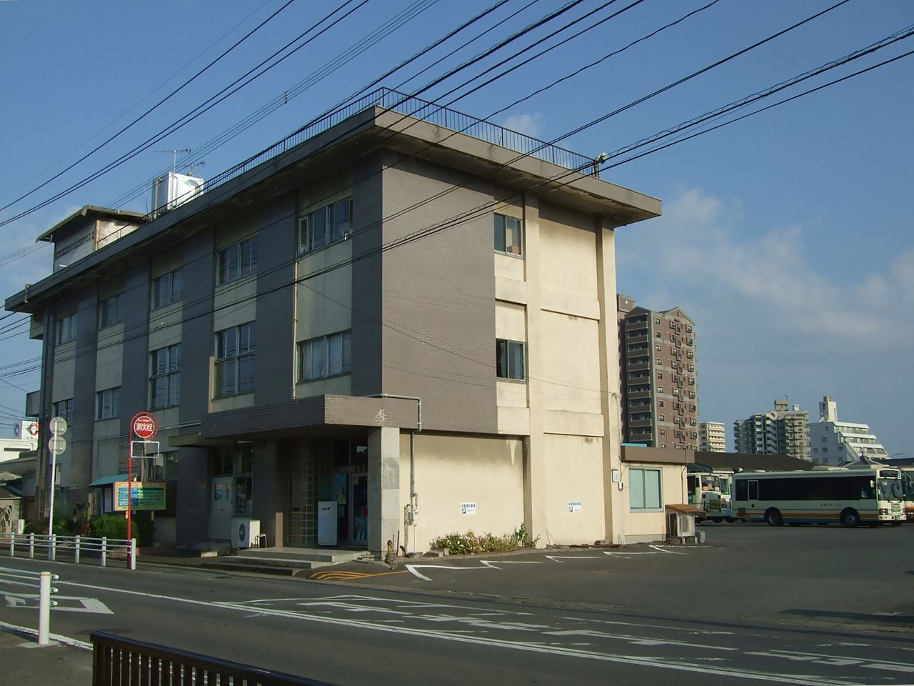 Saga City Transportation Bureau main office